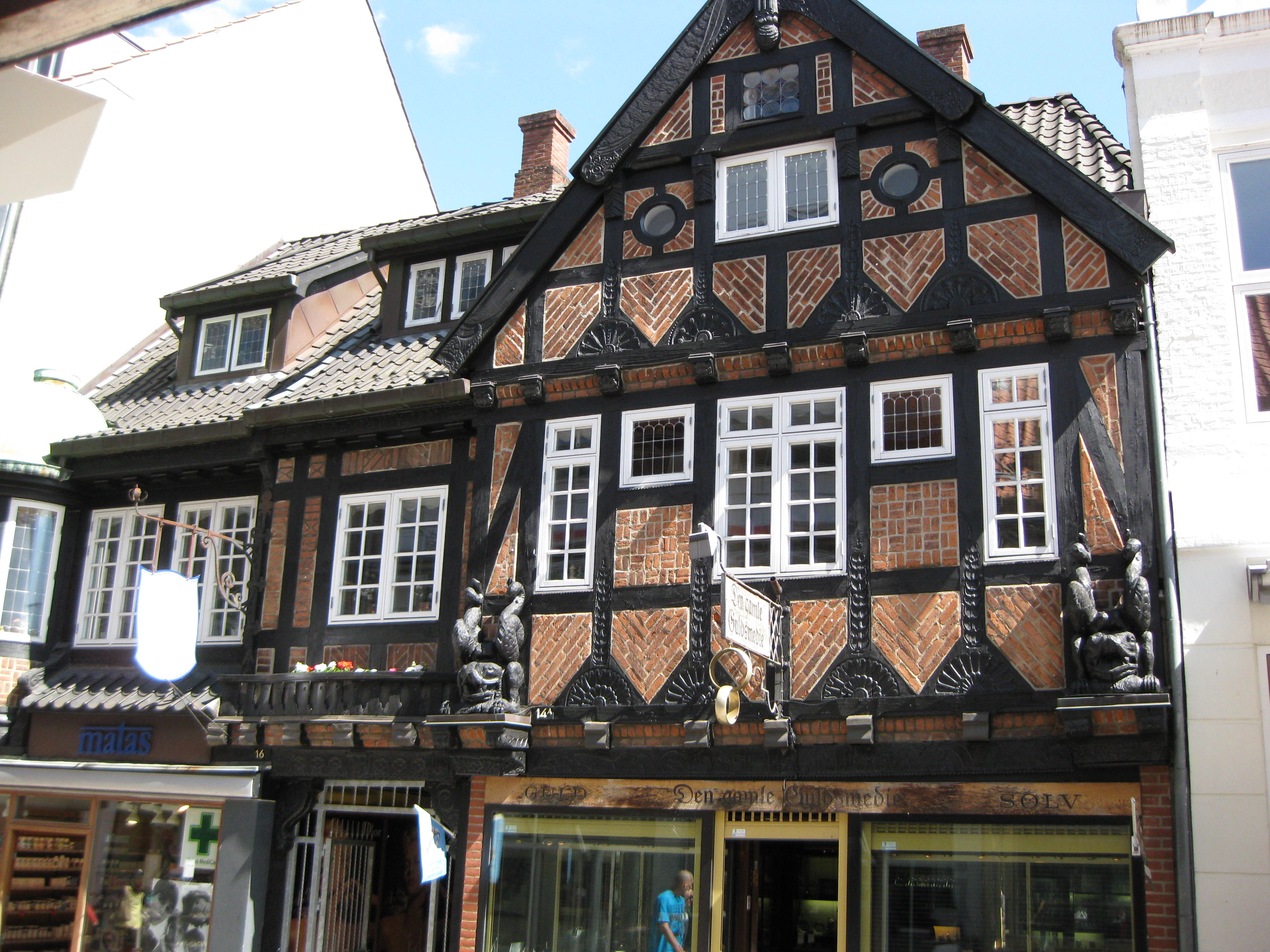 "Den Gamle Guldsmedie" (the old gold smithy building) in the town "Vejle". The town is located in South-Central Jutland, Denmark.